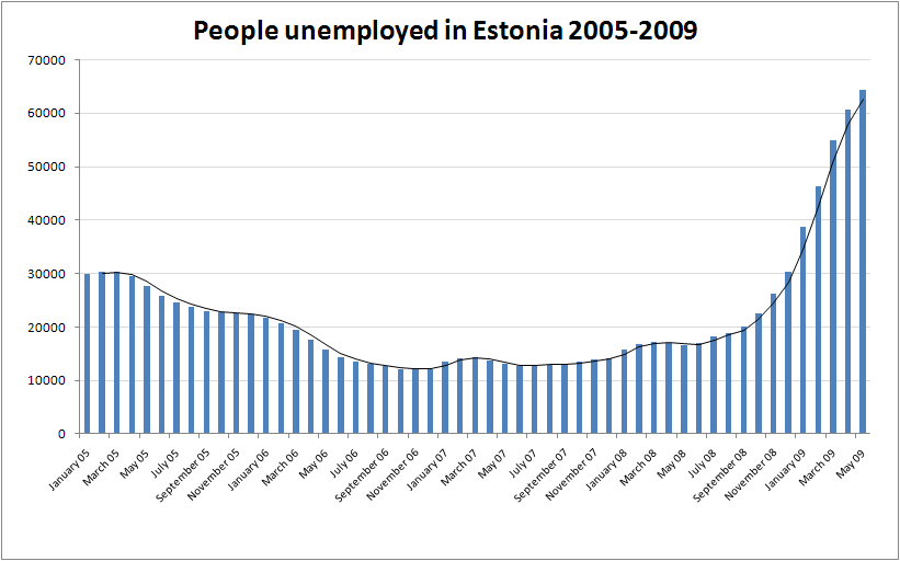 People unemployed in Estonia 2005-2009